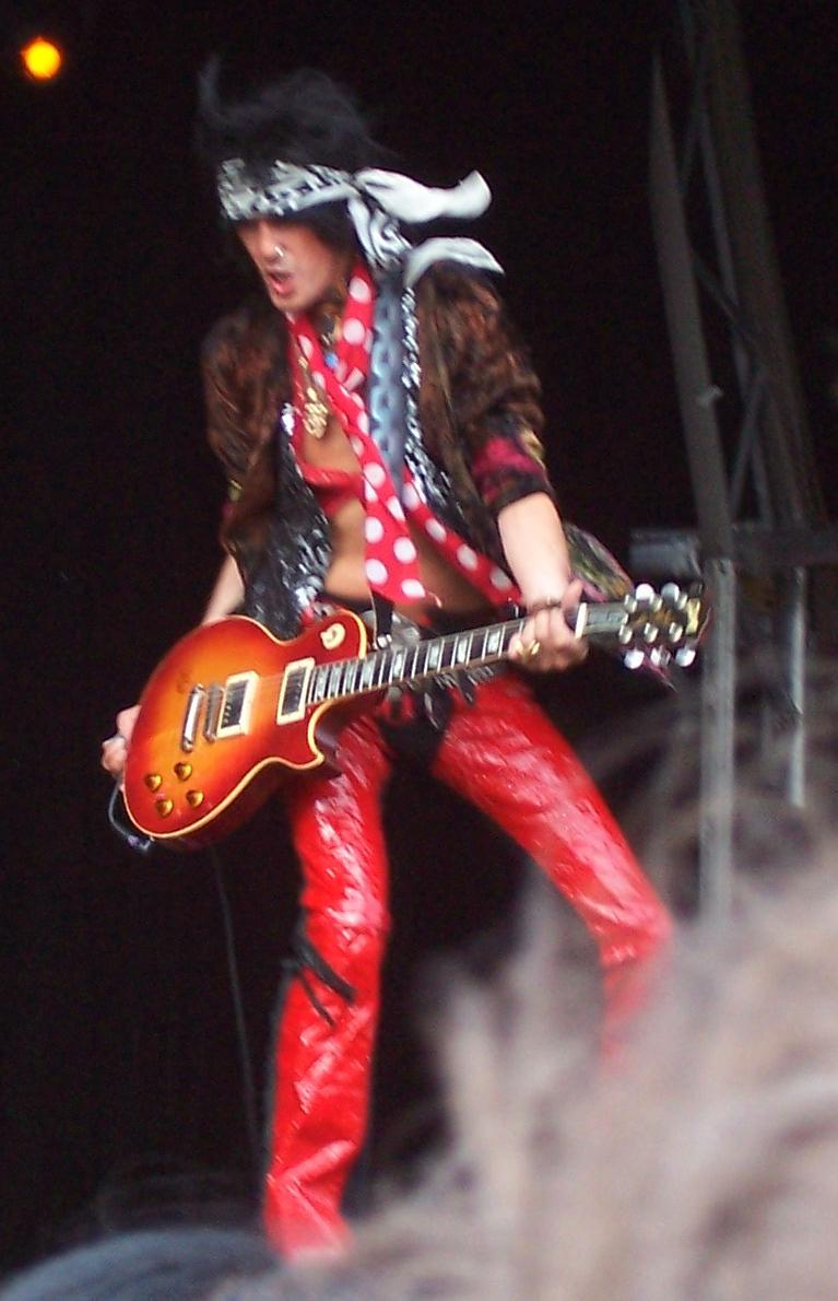 Andy McCoy of Hanoi Rocks, playing guitar on stage at the Scarborough Rock in the Castle festival.